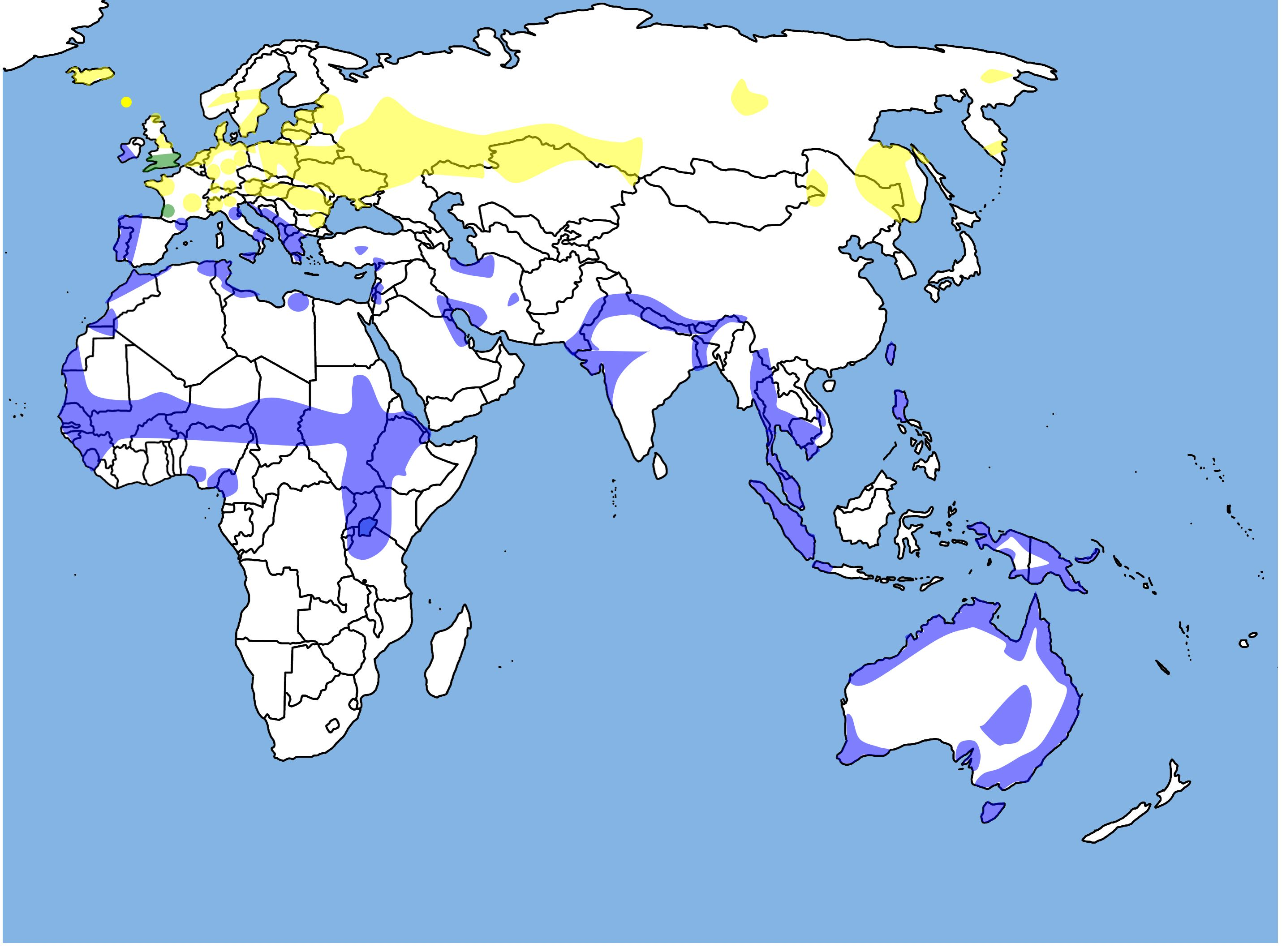 Distribution of the Black-tailed Godwit, Limosa limosa. Yellow= breeding, blue= staging, wintering, green=both, resident